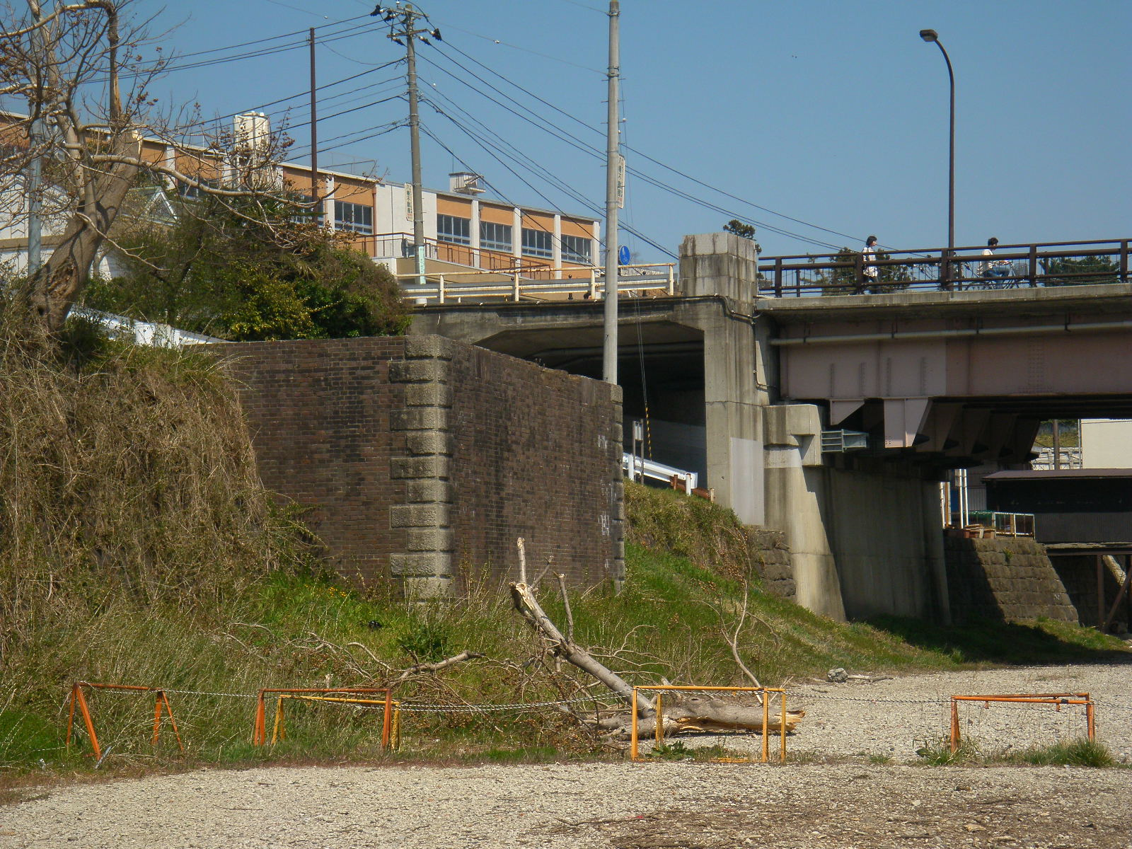 Yodomi Bridge of Hirose River. Aoba ward, Sendai, Miyagi prefecture, Japan. From the left bank of Hirose River. Old bridge's pier built in 1892.